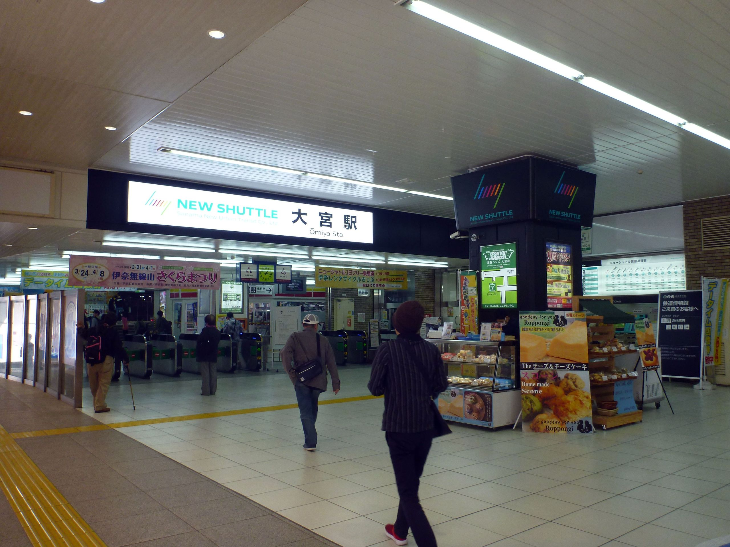 New Shuttle Omiya Station